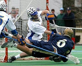 This is a photo of a "dive shot" where the lacrosse player leaves his feet to fire his shot at the goal (it is now illegal in the NCAA, but still legal in the MLL). In this case Pat Walsh (Notre Dame) employs a dive shot to score the winning goal in a 9-8 overtime victory against Hofstra in en:2005.